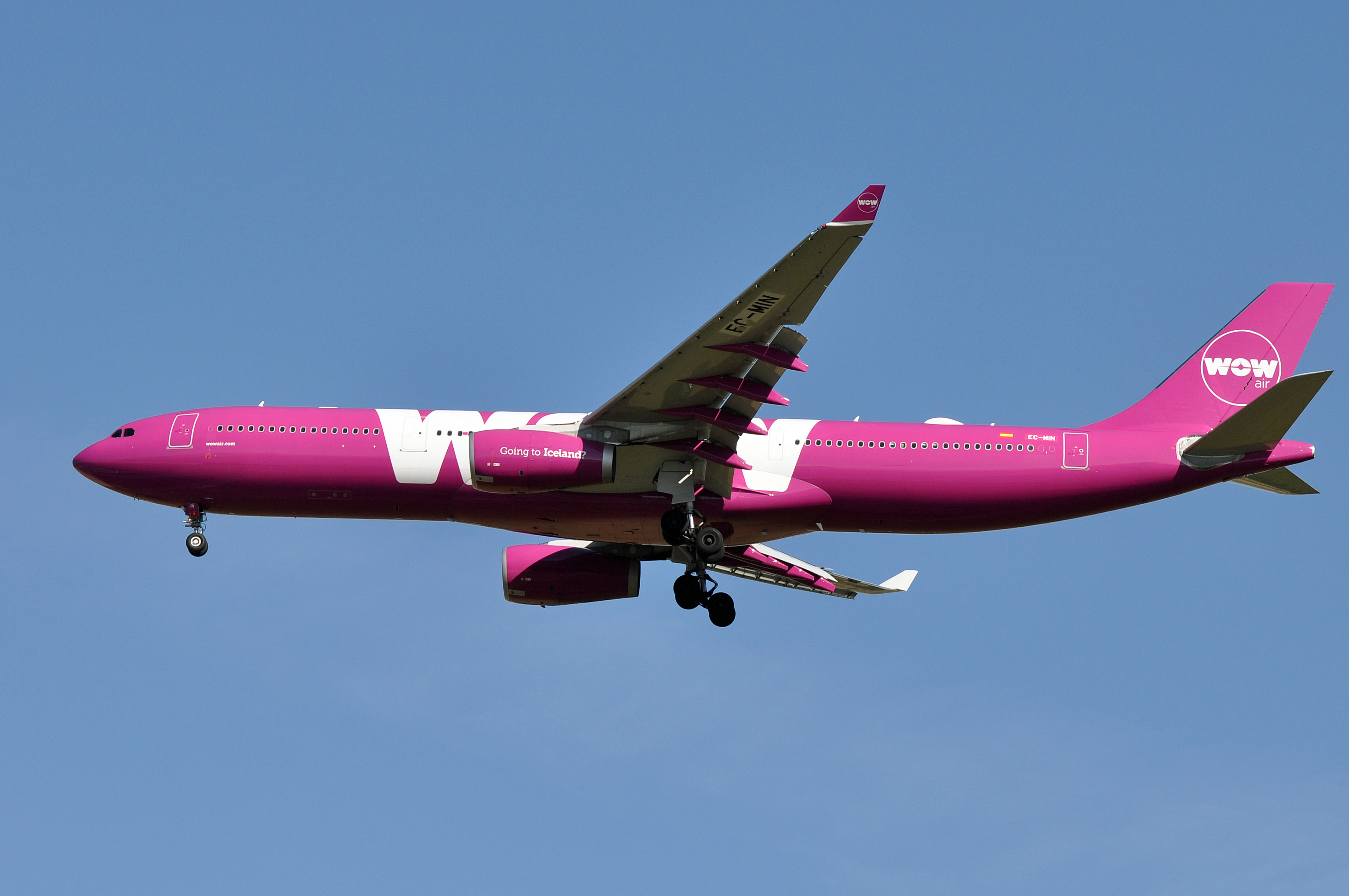 MSN 1607 A330-343E / A330 / A330-300 WOW AIR CDG AIRPORT EX AIR EUROPA AS EC-MIN / STORED 05 TO 06-2016 NOW TF-LUV PLANNED TO SKYMARK AIRLINES AS JA330K NOT DELIVERED.